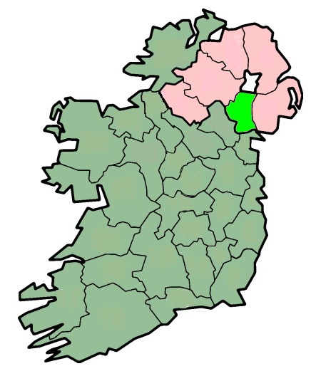 Location of County Armagh (Condae Ard Mhacha) (light green) within Northern Ireland (pink) in the island of Ireland (green)